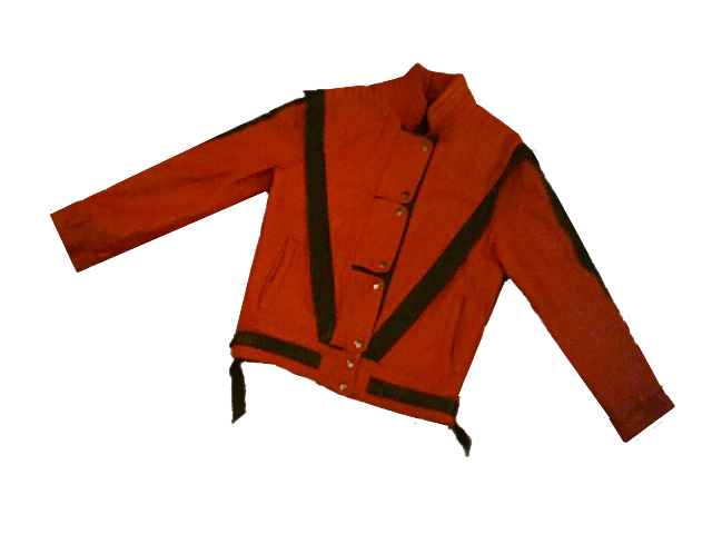 Thriller Jacket